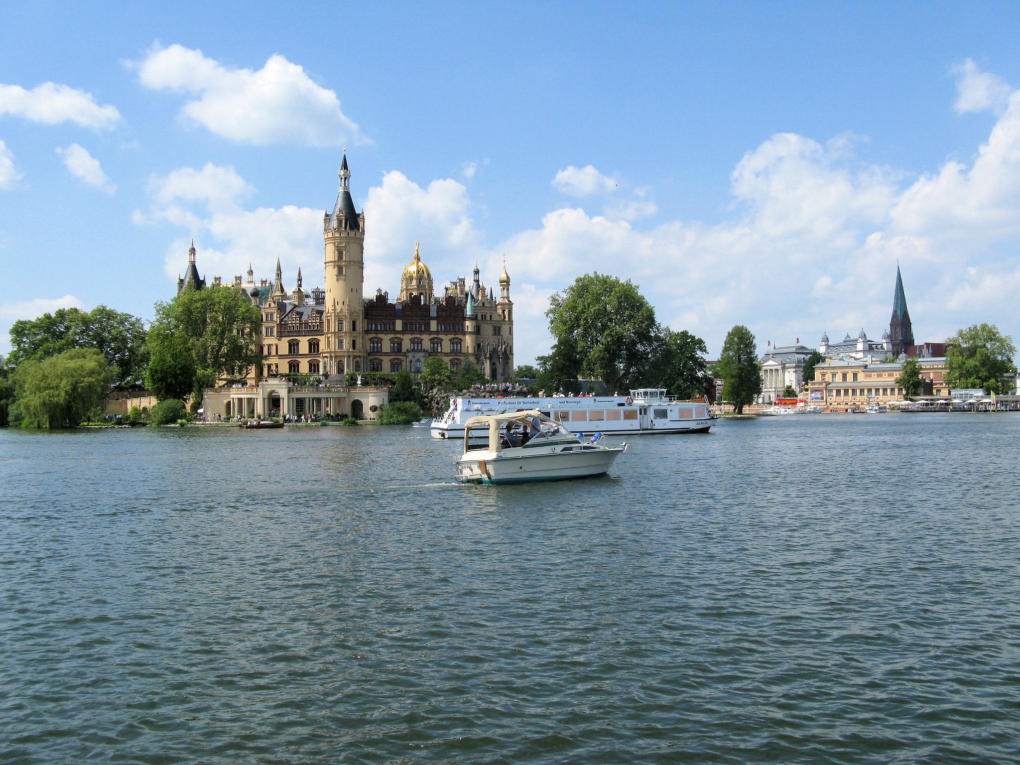 Bundesgartenschau 2009 - Castle, Lake and ferry of White Fleet in Schwerin, Mecklenburg-Vorpommern, Germany